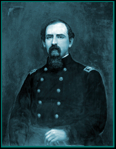 Depicted person: John Wayles Jefferson – Union Army colonel, grandson of Thomas Jefferson and Sally Hemings